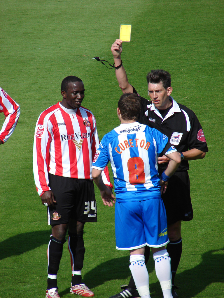 Colchester United`s leading scorer Jamie Cureton is shown the yellow card after an altercation with the Sunderland left-back during their 3-1 home win in The Championship today. Dwight Yorke looks on as referee Mr Probert issues the card. Leaders Sunderland had gone 18 games unbeaten and went 1-0 down in first half injury time when centre-back Wayne Brown headed in from a free kick. Dwight Yorke equalised early in the second half but Colchester fought back, going 2-1 up with a goal from Richard Garcia in the 82nd minute, before sealing the game with a Jamie Cureton penalty on 89 minutes after Dean Whitehead had fouled in the box. A capacity crowd of just over 6000 was at Layer Road to watch this victory, which increases Colchester`s chances of making the play-offs for a place in the Premiership.